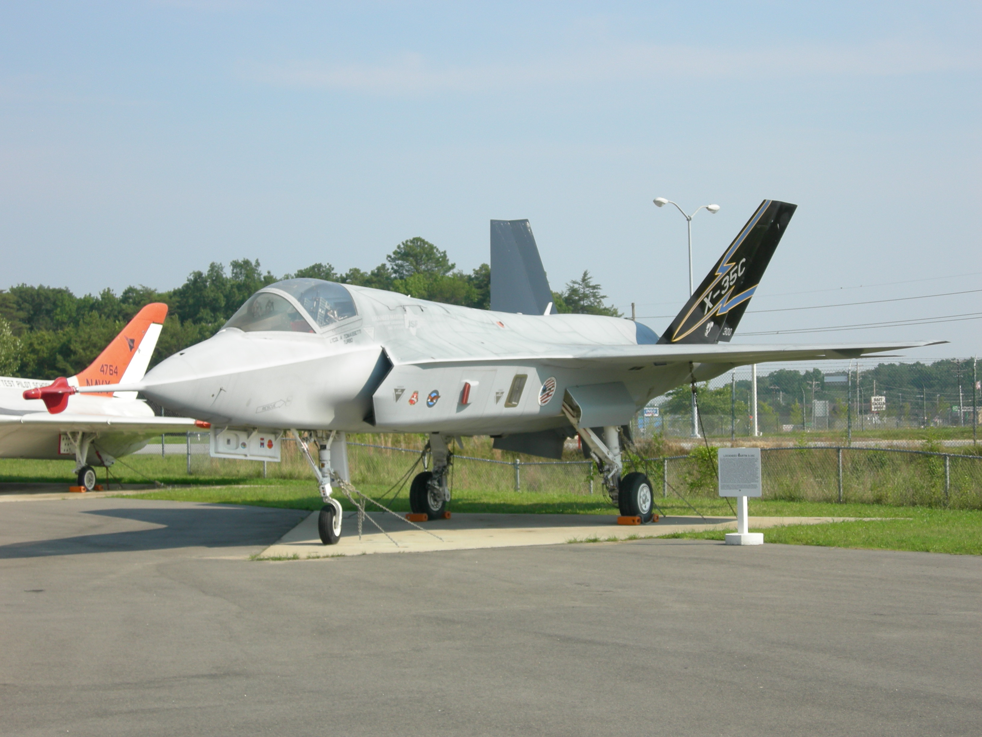 Lockheed-Martin X-35C on display at the Patuxent River Naval Air Museum. This won the Joint Strike Fighter competition over the Boeing X-32, with the testing conducted at the nearby Naval Air Station Patuxent River.